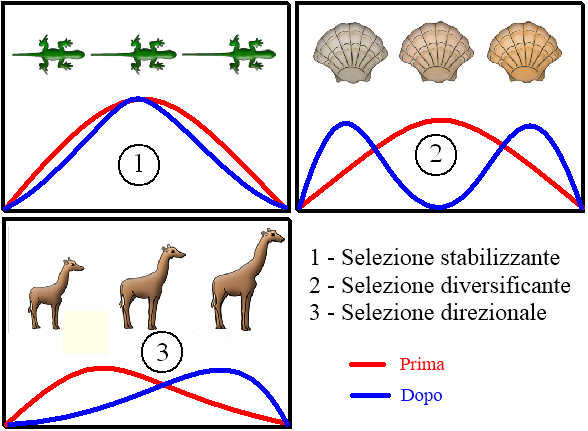 A chart showing three types of selection.